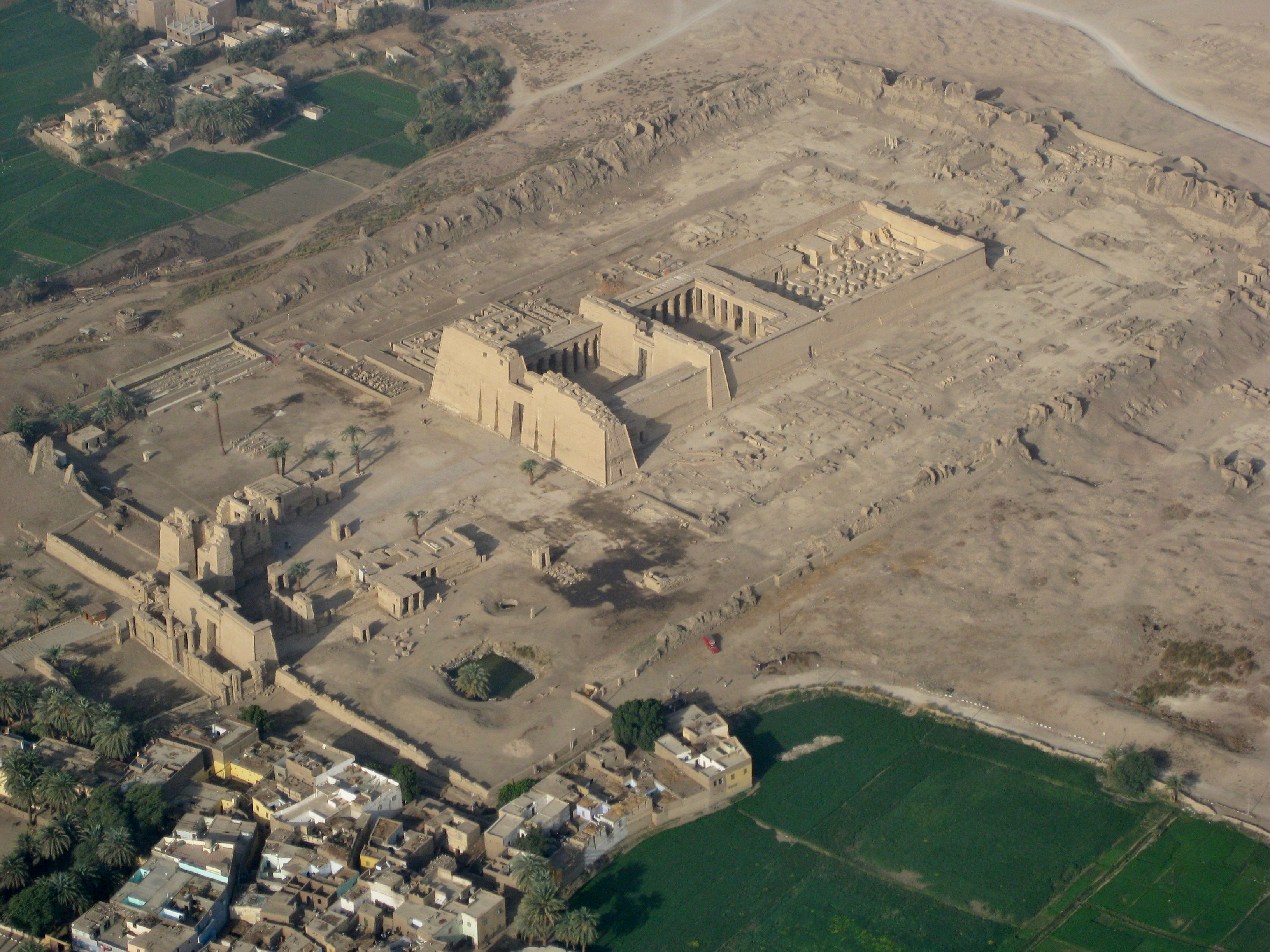 Temple of Rameses III - Medinet Habu